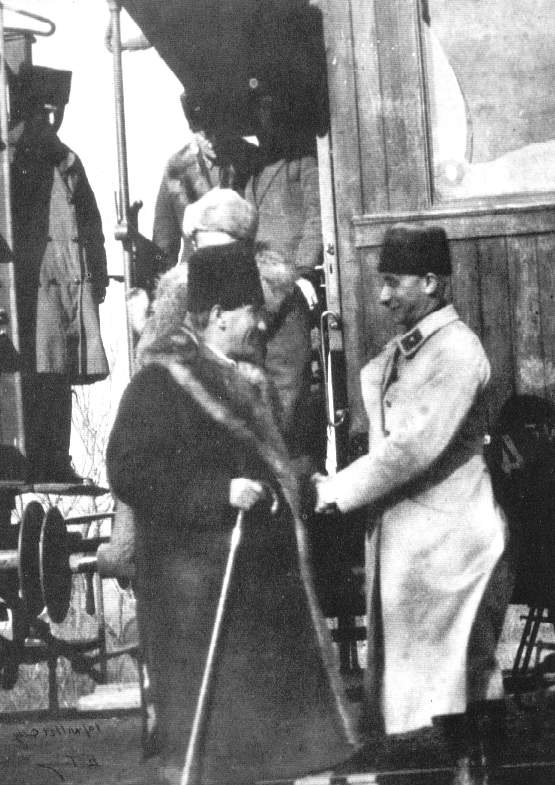 Mustafa Kemal Pasha and Ali Ihsan Pasha, Çay, 1922.